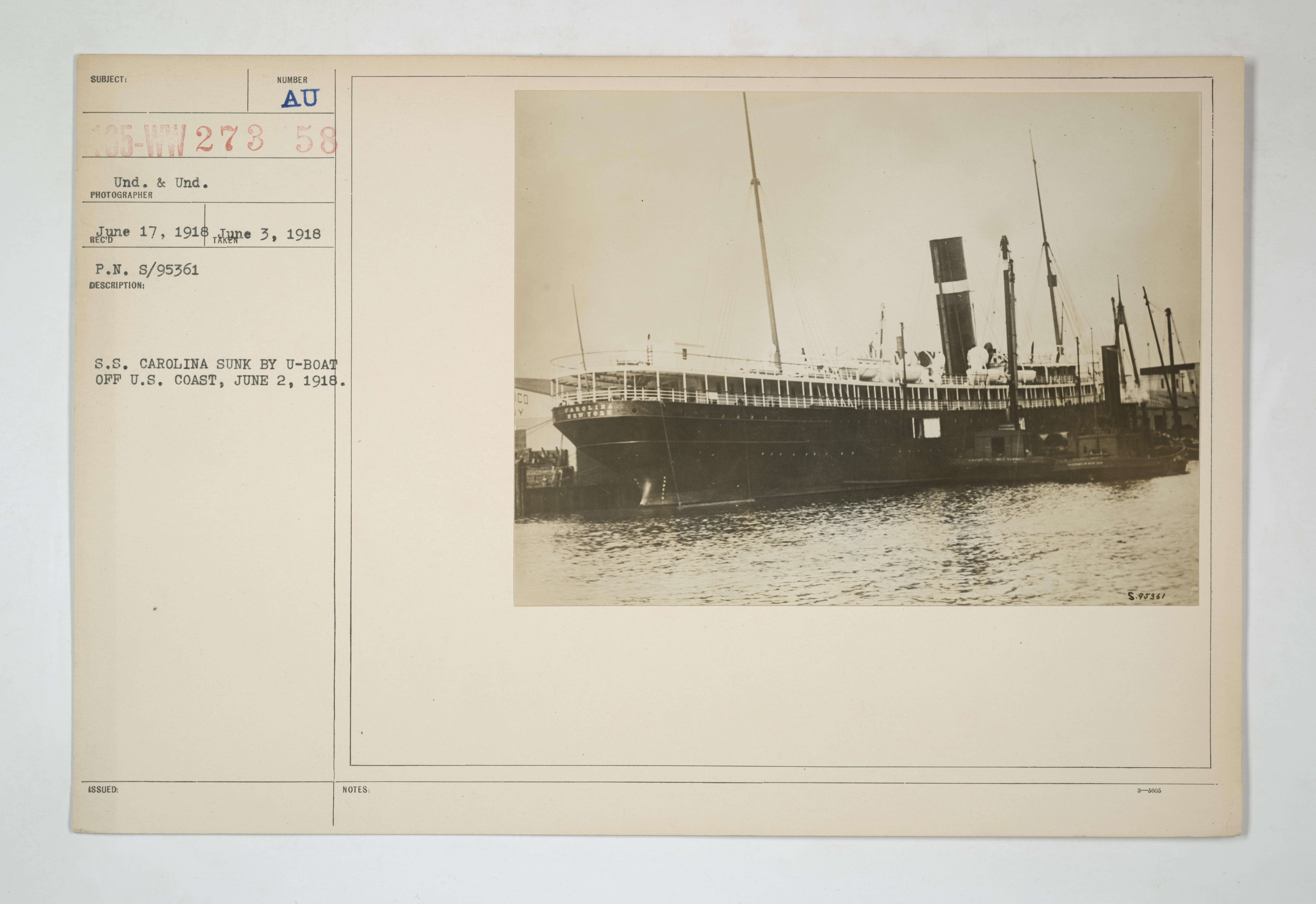 Scope and content: Date Taken: 6/3/1918 Photographer: Underwood and Underwood